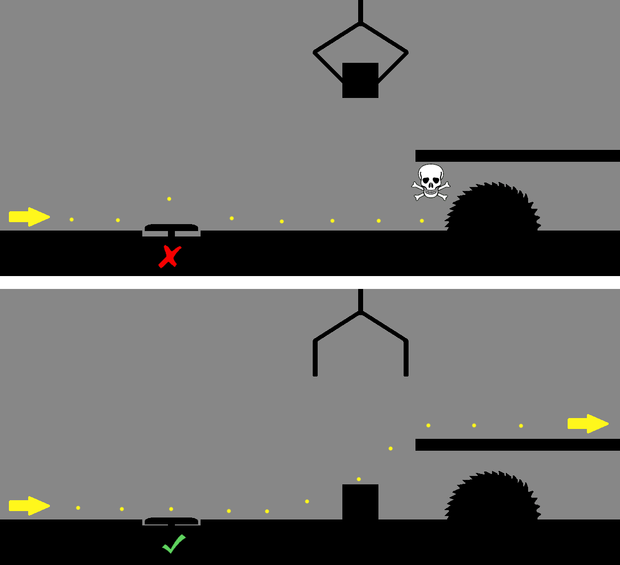 This picture shows the concept of "trial and death" from the video game Limbo (2010). In the picture the player (indicated by the yellow dots) will need to change his environment by, in this case, stepping on a switch in order to advance in the game. The two pictures shows the situation where the player fails to step on the switch, which results in a death (top picture) and the effects of stepping on the switch and using the box to continue on in the game (bottom picture).